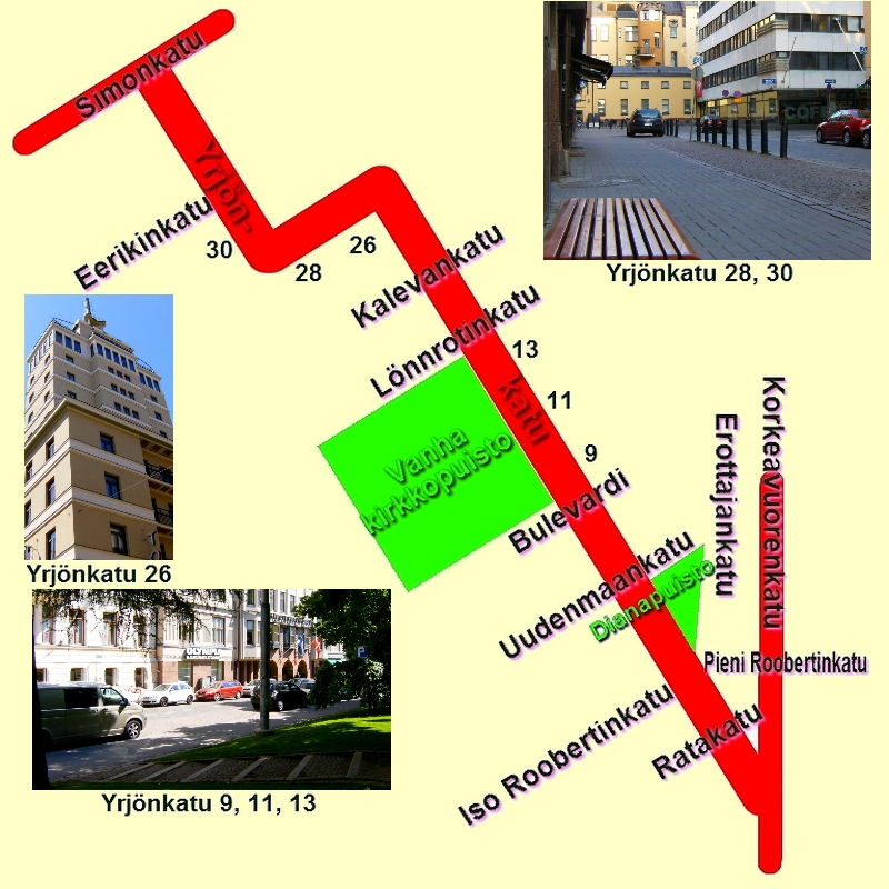 Yrjönkatu and the crossing streets, Helsinki, Finland, not in true scale